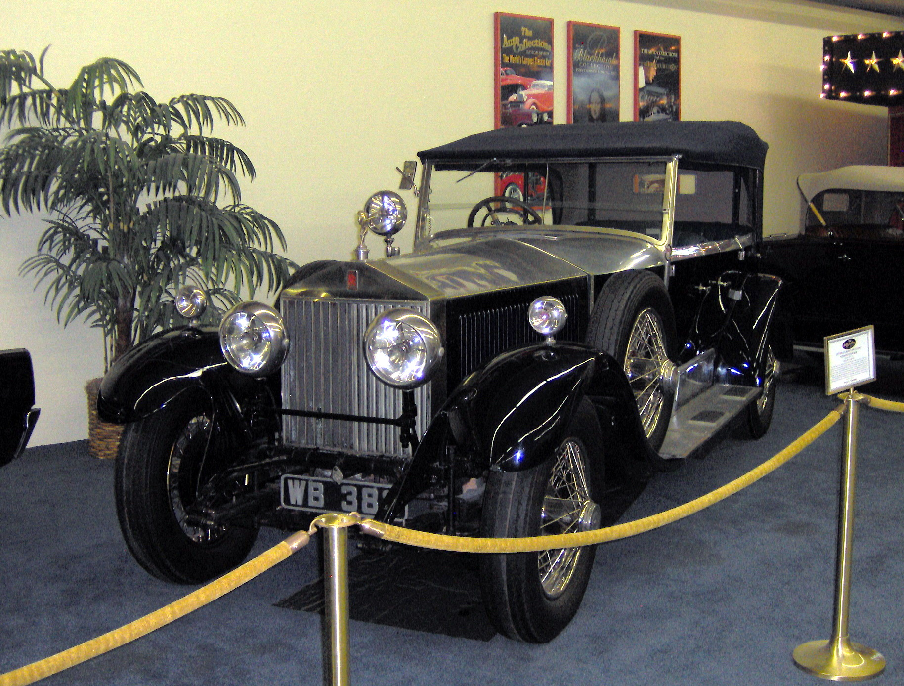 1927 Rolls-Royce Phantom I Windover Tourer